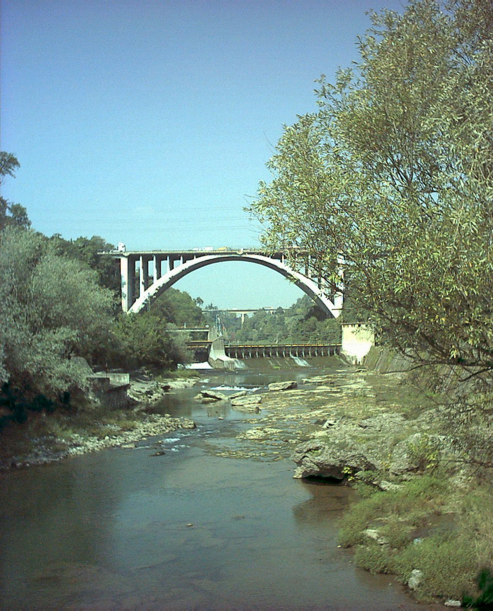 River Adda from Crespi d'Adda, Lombardy, Italy.